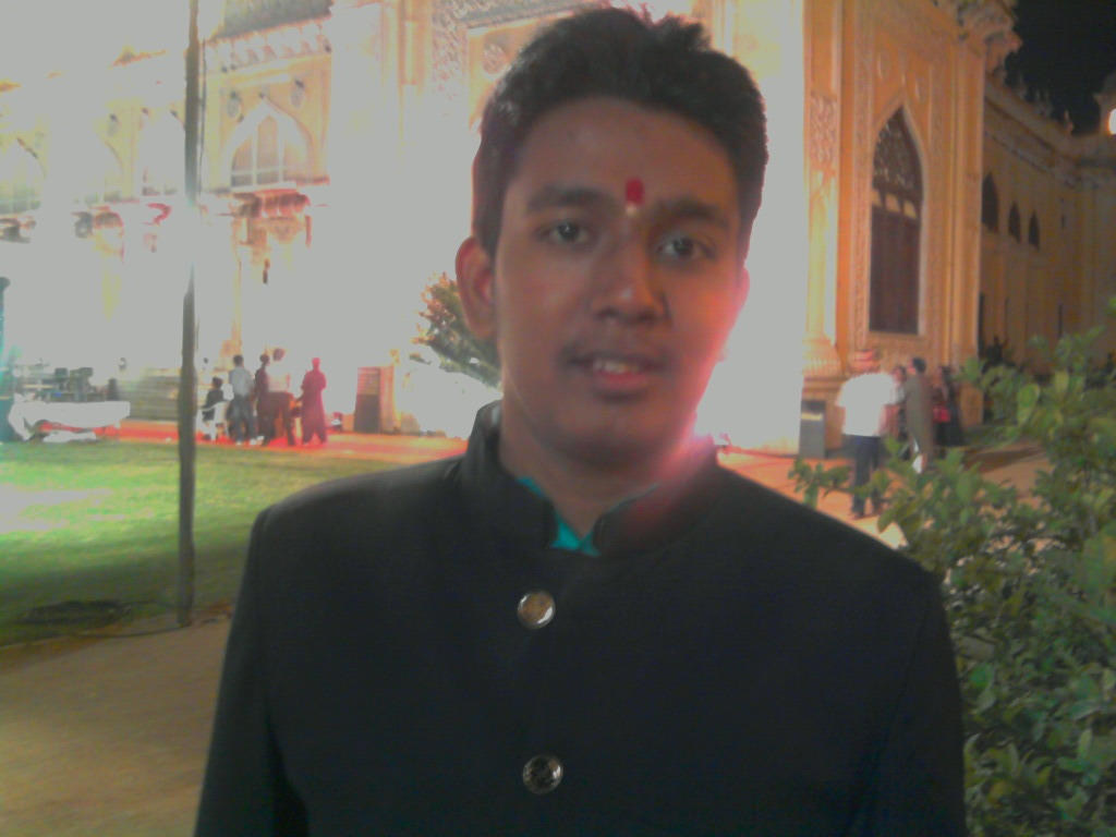 This is picture of Shehanai player, Bhaskar Nath.